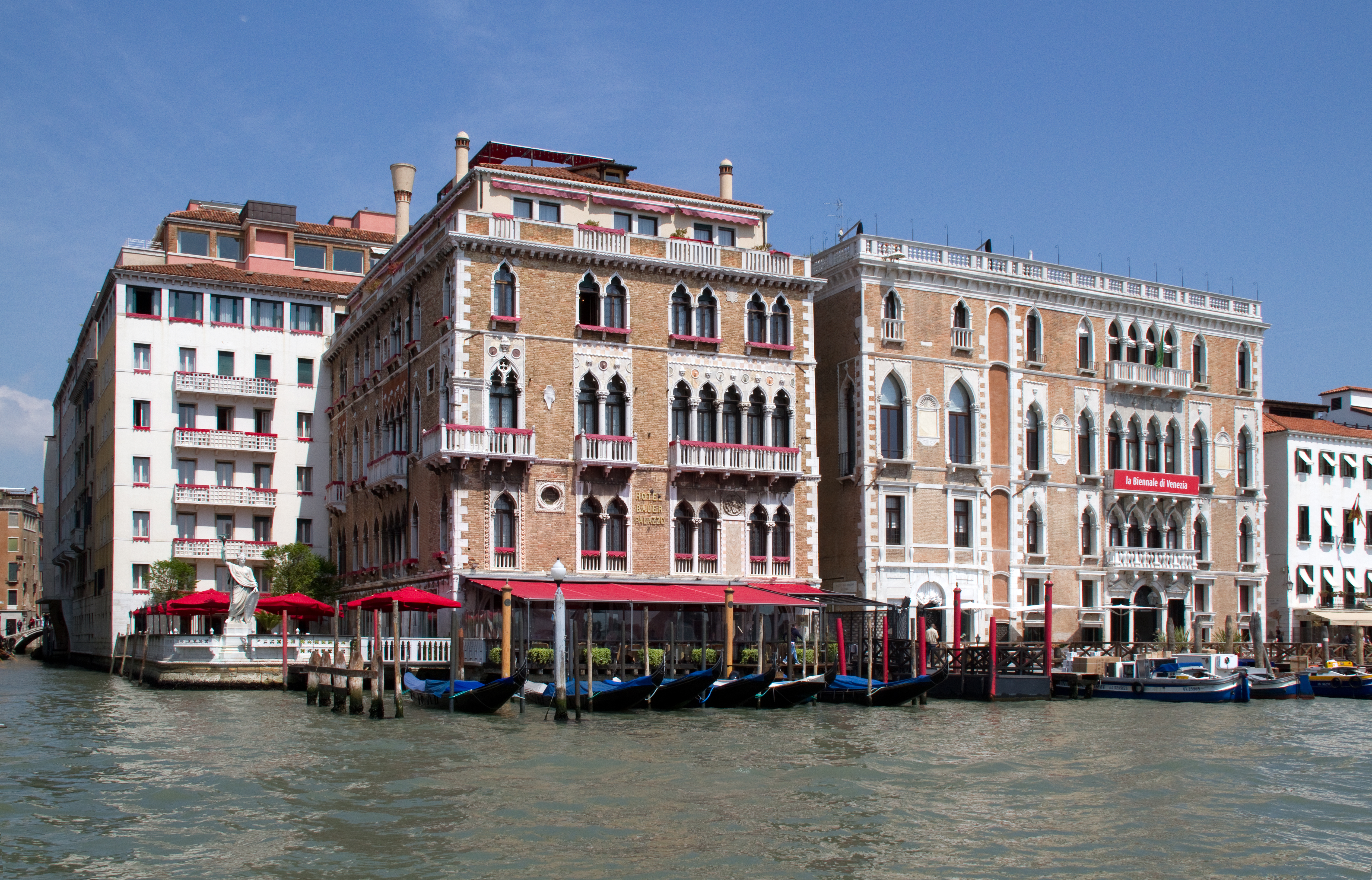 Grand Canal 18a